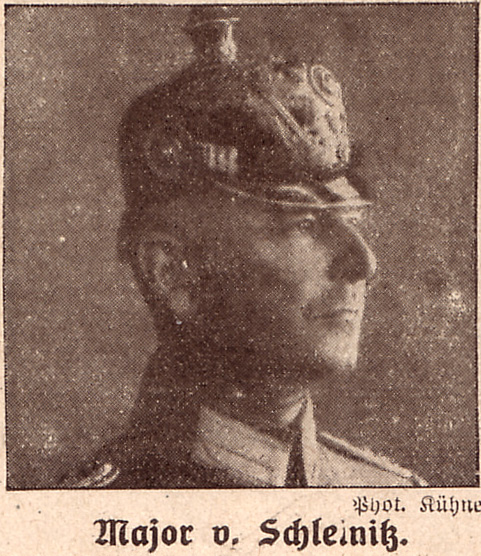 Major Walter von Schleinitz